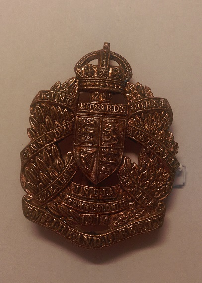 Photo of 2nd King Edward's Horse Cap Badge from personal collection